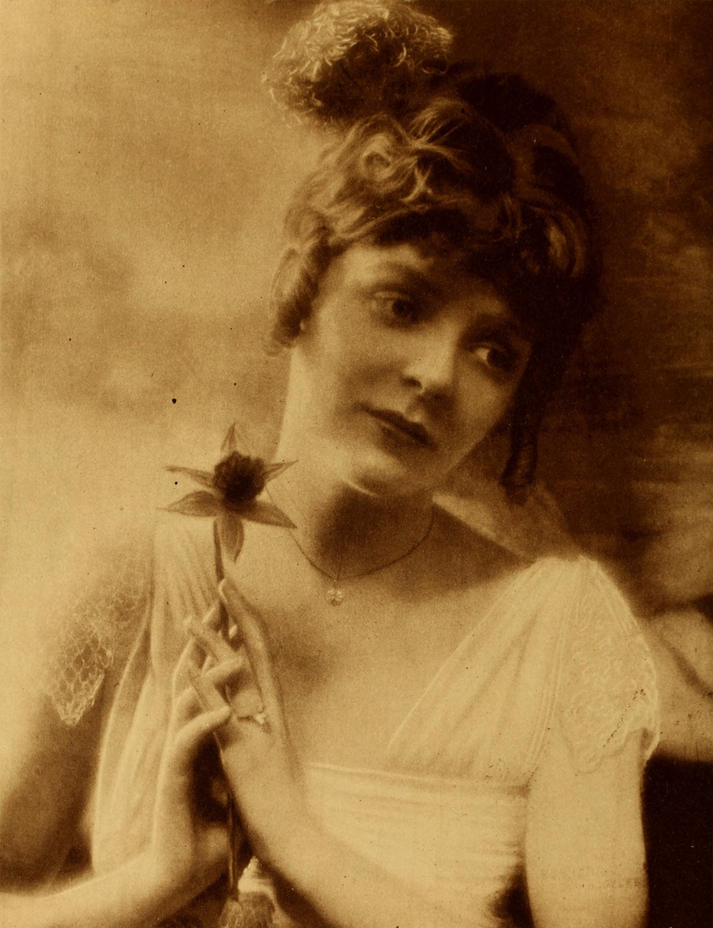 Its caption reads: "Blanche Sweet, where are you? Several thousand admirers want to know. The lenses of a thousand projecting machines are dim with mournful moisture at your absence. We need you and your art upon the screen. Come back!"